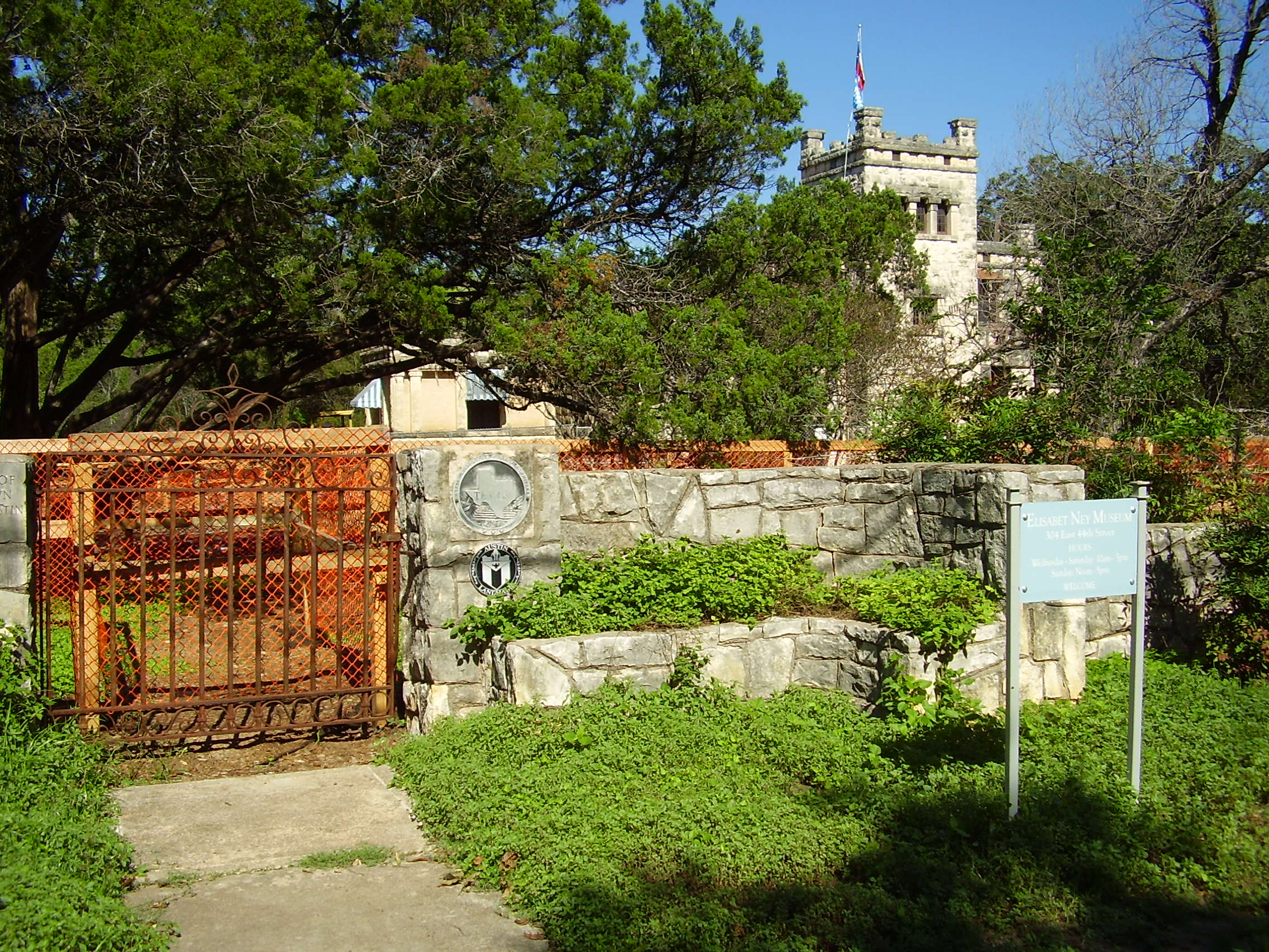 Elisabet Ney Museum